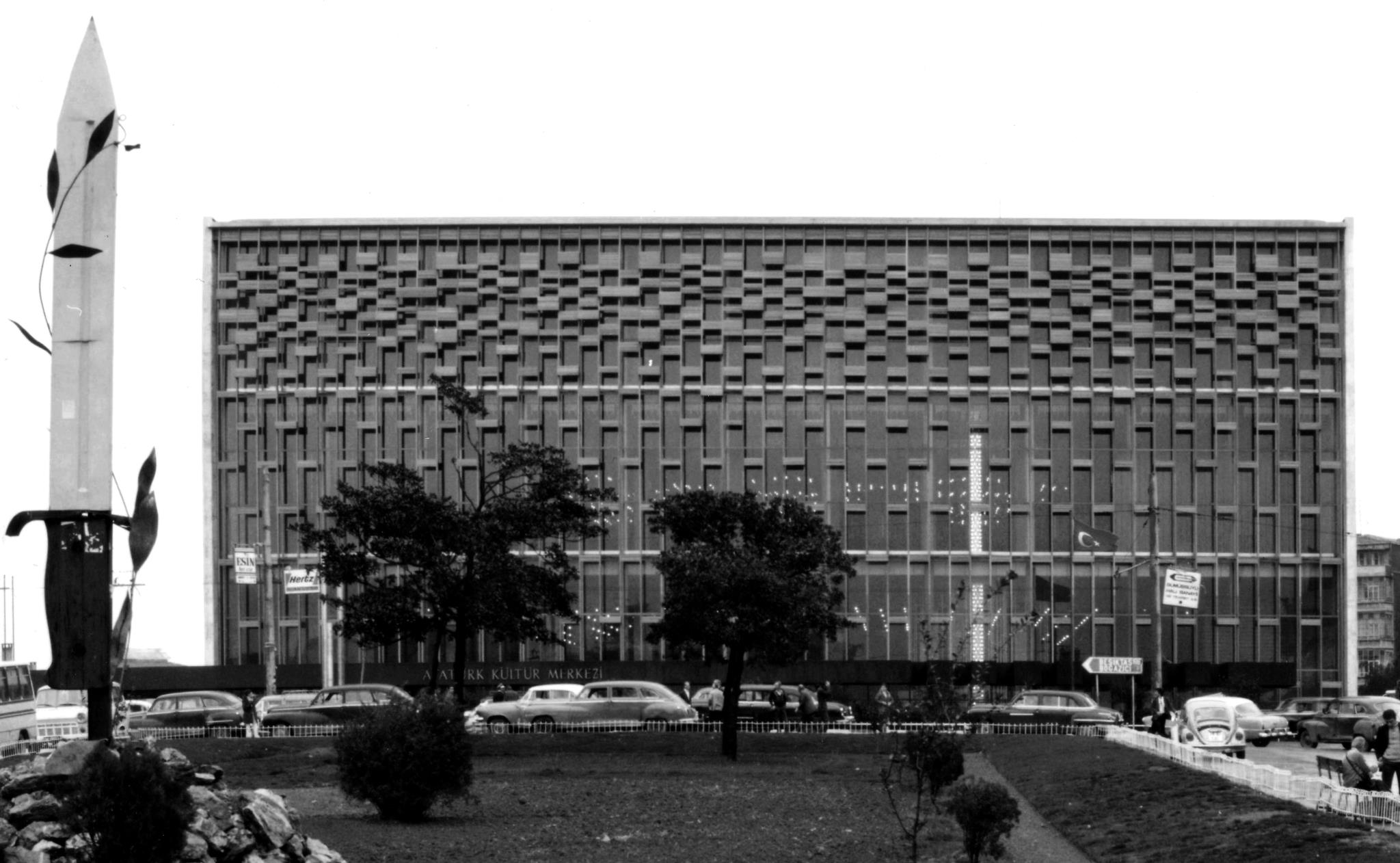 "The Performance of Modernity: Atatürk Kültür Merkezi, 1946-1977" September 21, 2012-January 6, 2013, SALT Galata, Open Archive 1978: İstanbul Cultural Palace was opened on October 6th with the name Atatürk Cultural Center (AKM) Atatürk Cultural Center SALT Research, Hayati Tabanlıoğlu Archive “Modernin İcrası: Atatürk Kültür Merkezi, 1946-1977” 21 Eylül 2012 - 6 Ocak 2013, SALT Galata, Açık Arşiv 1978: İstanbul Kültür Sarayı, 6 Ekim’de Atatürk Kültür Merkezi (AKM) ismiyle yeniden açıldı. Atatürk Kültür Merkezi